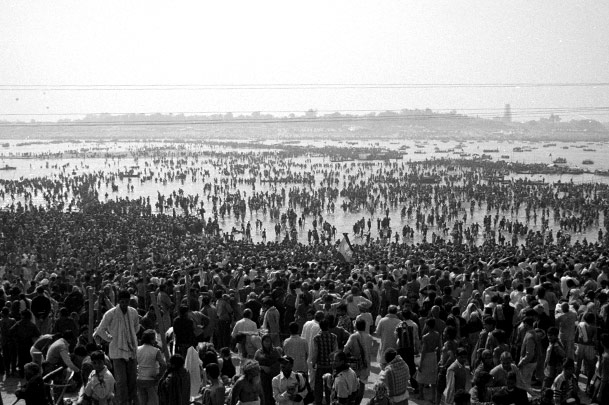 The 2001 Kumbh Mela (Self made image uploaded by Devin Asch) , Allahabad